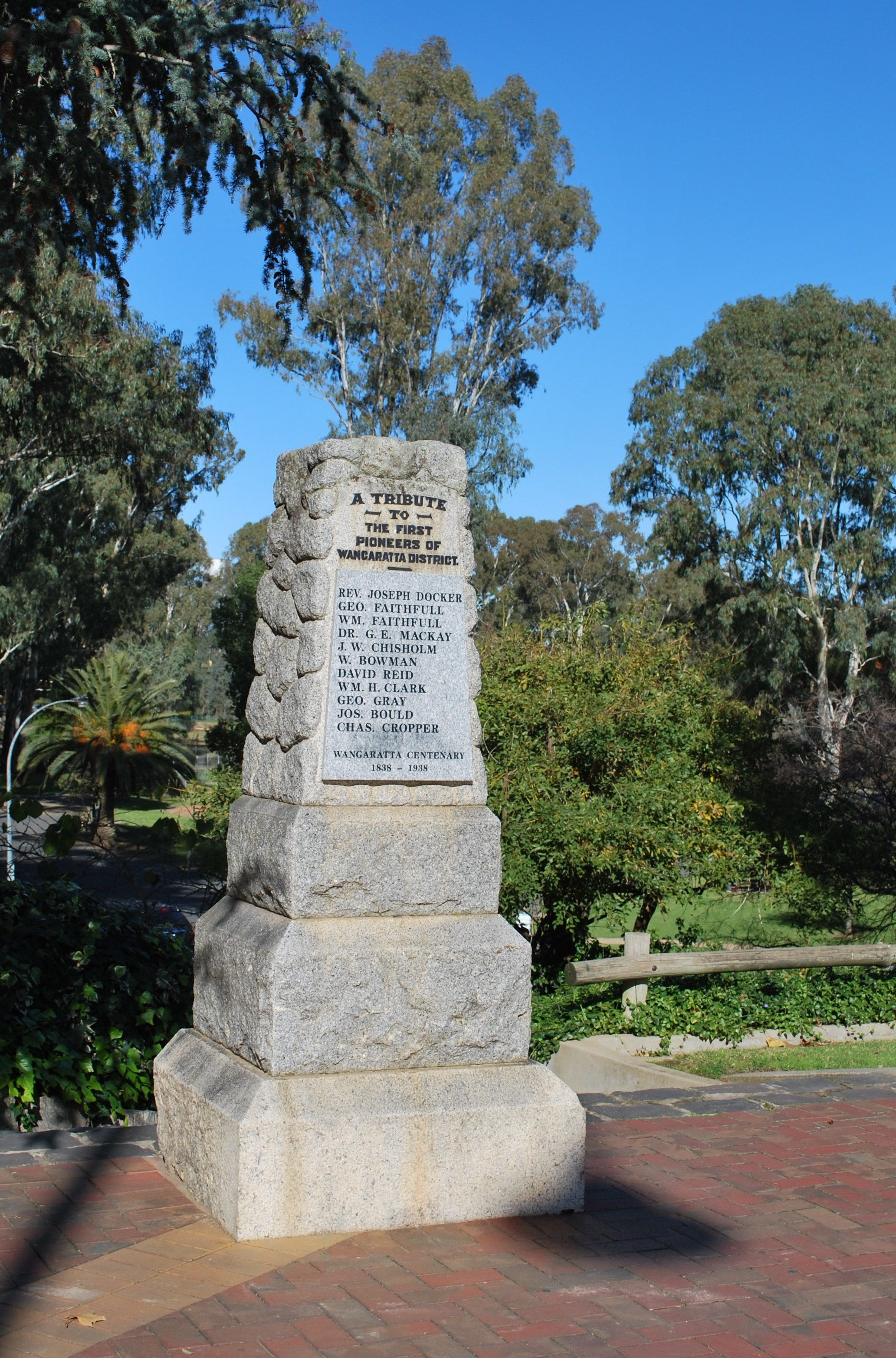 Pioneers memorial at Wangaratta, Victoria